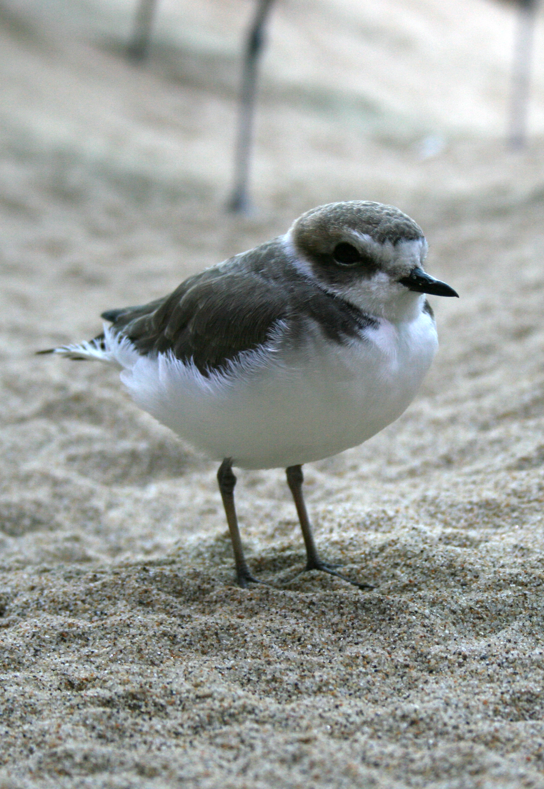 All sections of Surf and Wall Beaches are slated to close March 1, for the nesting season of the western Snowy Plover. The U.S. Fish and Wildlife Service will be implementing the seasonal restrictions placed to protect the population of the tiny shorebirds.